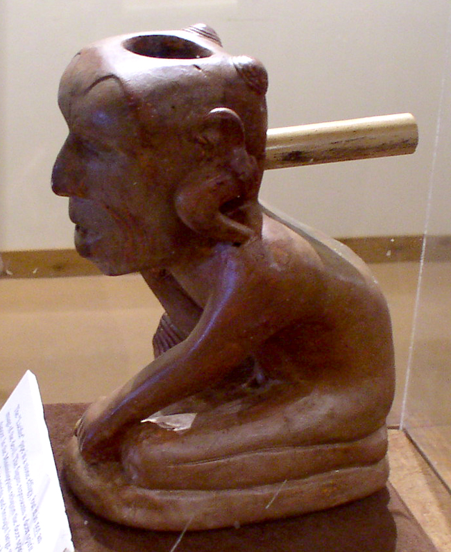 A Missouri flint clay effigy pipe called "Lucifer" or the "Grizzly Man", found at the Spiro Mounds site.